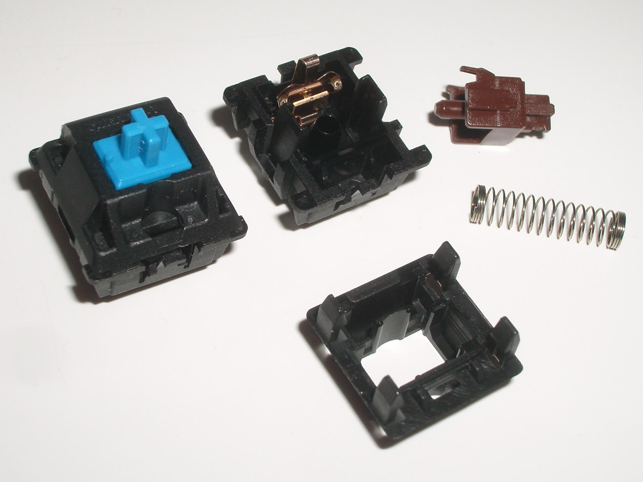 Cherry MX switches — Cherry MX Blue closed vs Cherry MX Brown, opened